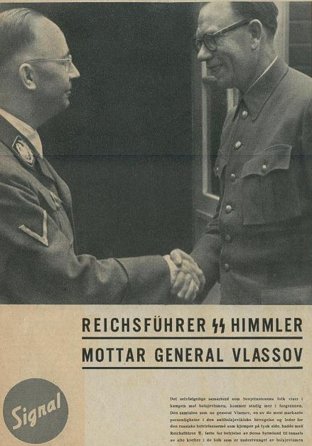 General Andrey Vlasov and Heinrich Himmler.